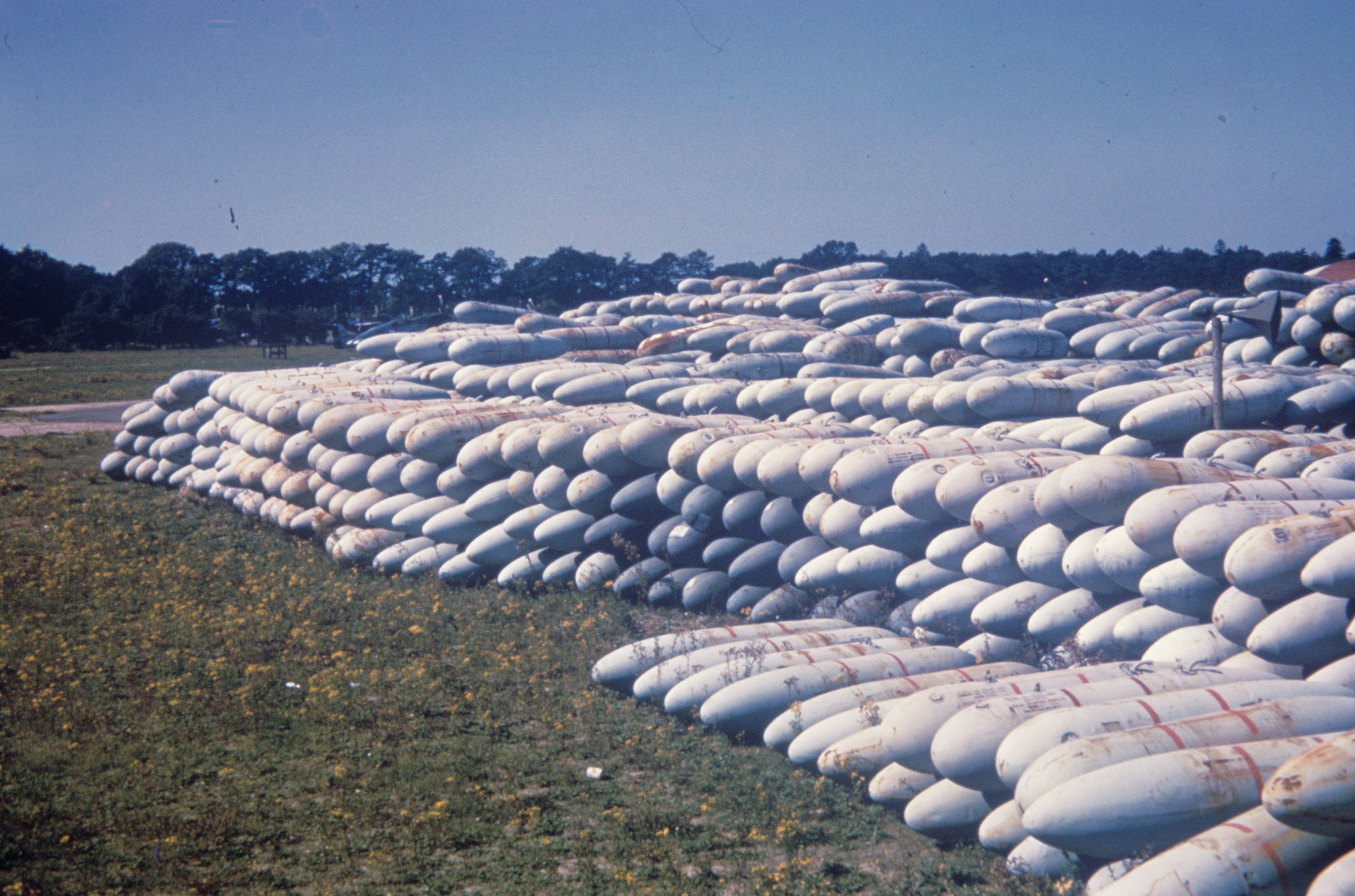 Fuel tanks for attaching to the wings of aircraft are neatly stacked at the 359th Fighter Group base at East Wretham.